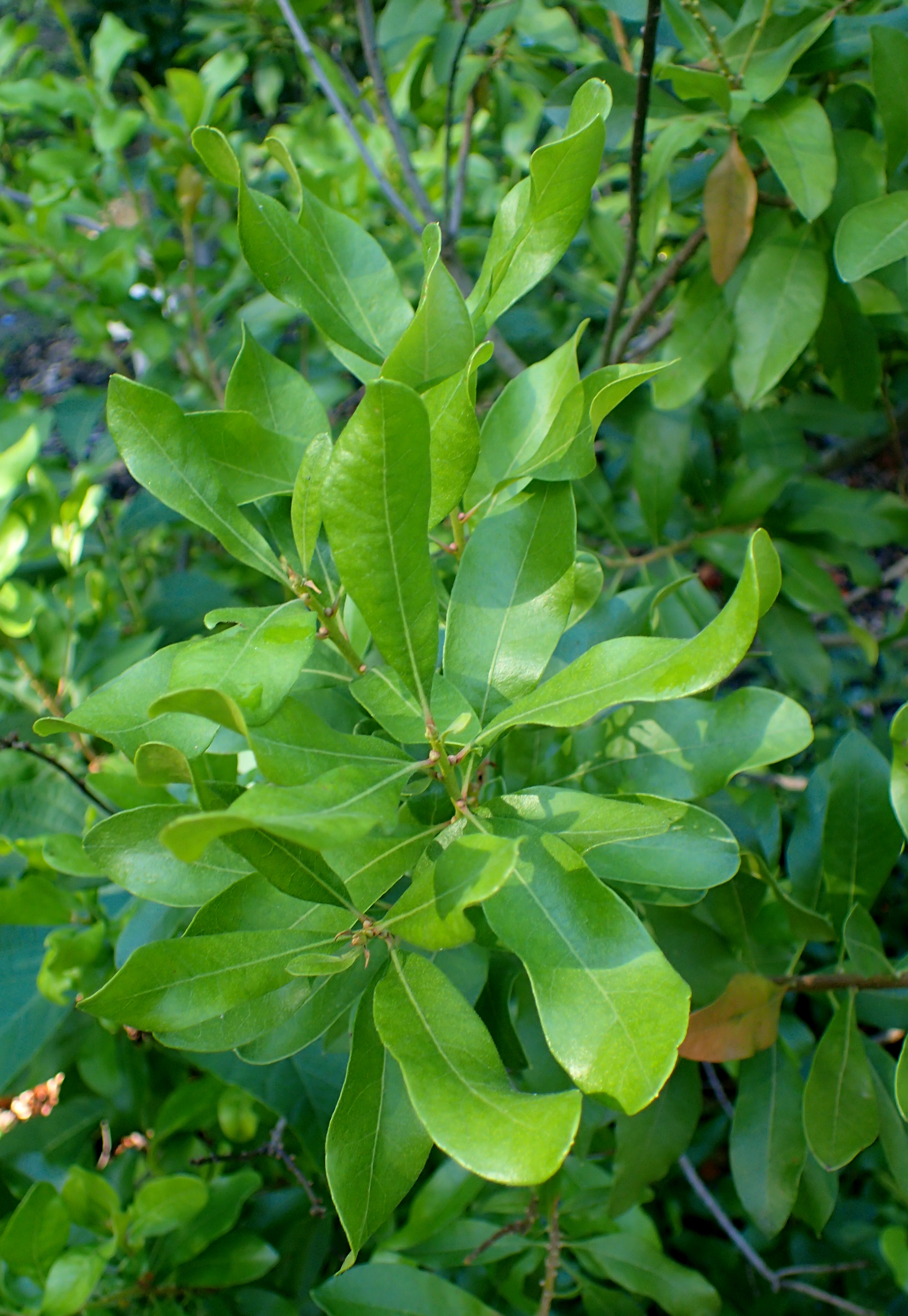 Morella pensylvanica in Warsaw University Botanical Garden